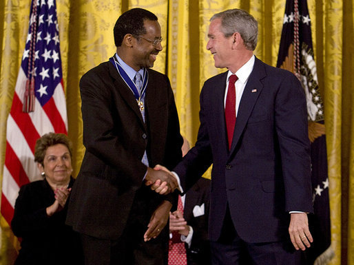 President George W. Bush shakes hands with Dr. Benjamin Carson Thursday, June 19, 2008, after presenting him with the 2008 Presidential Medal of Freedom during ceremonies in the East Room of the White House. White House photo by David Bohrer